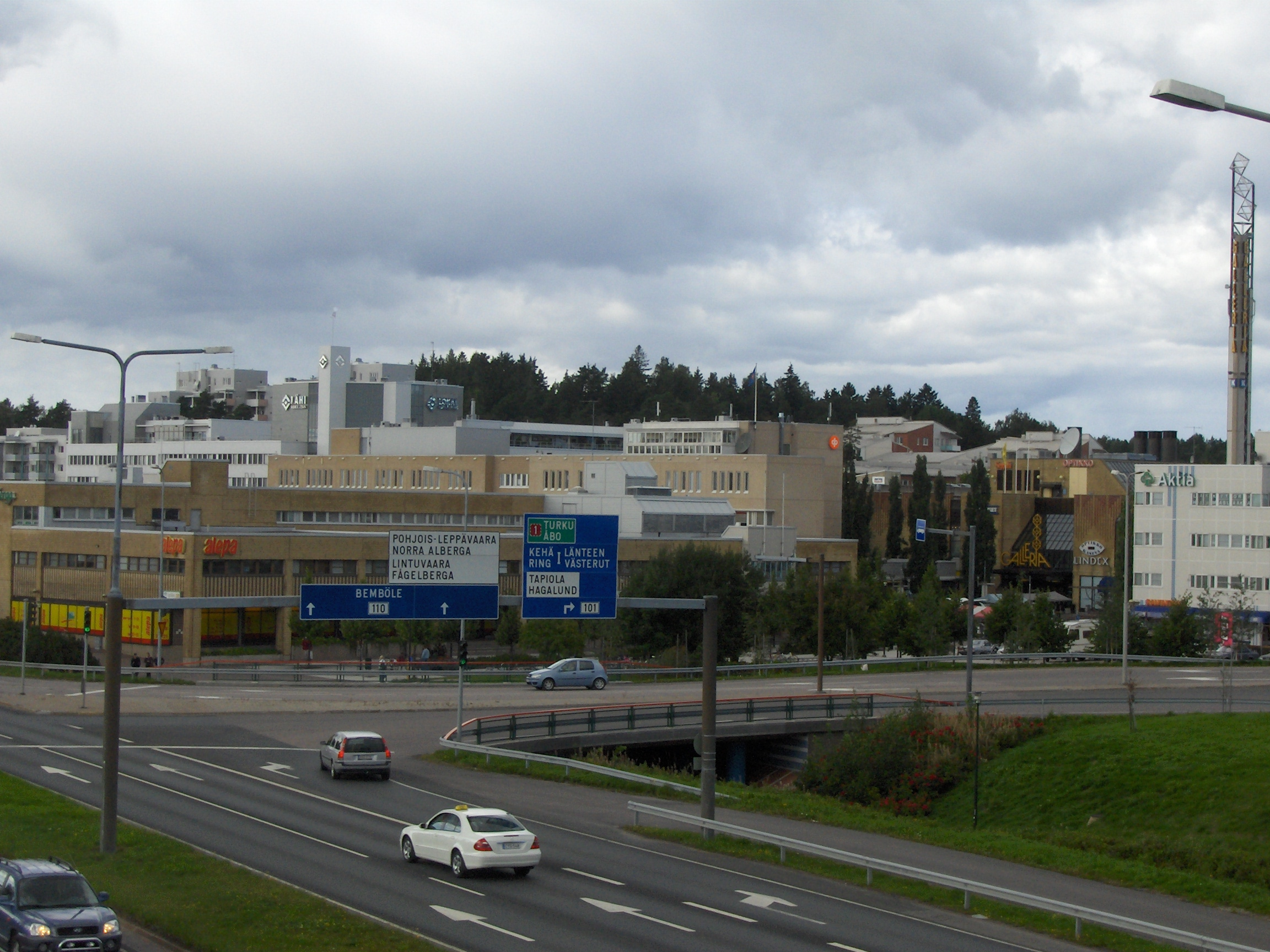 The regional road 110 in Leppävaara Espoo, Finland